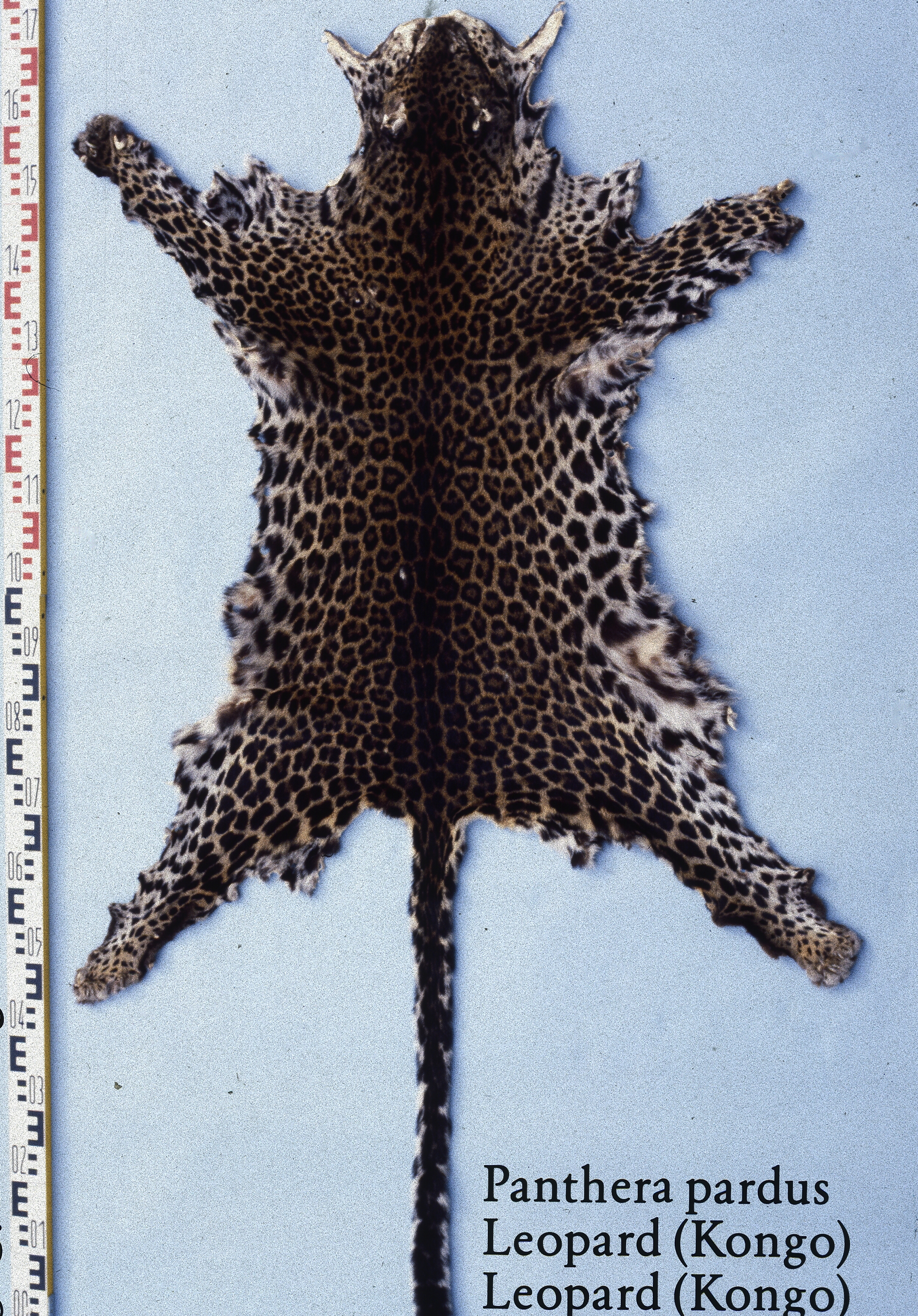 Panther skin (Kongo) (Panthera pardus). Fur skin collection, Bundes-Pelzfachschule, Frankfurt/Main, Germany